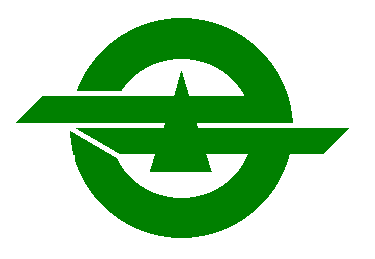 Chapter of former Taki, Mie pref. Japan.